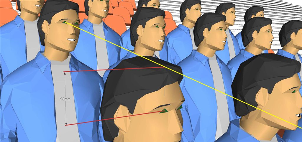 A 3-D representation of how the sight-line C-Value is measured